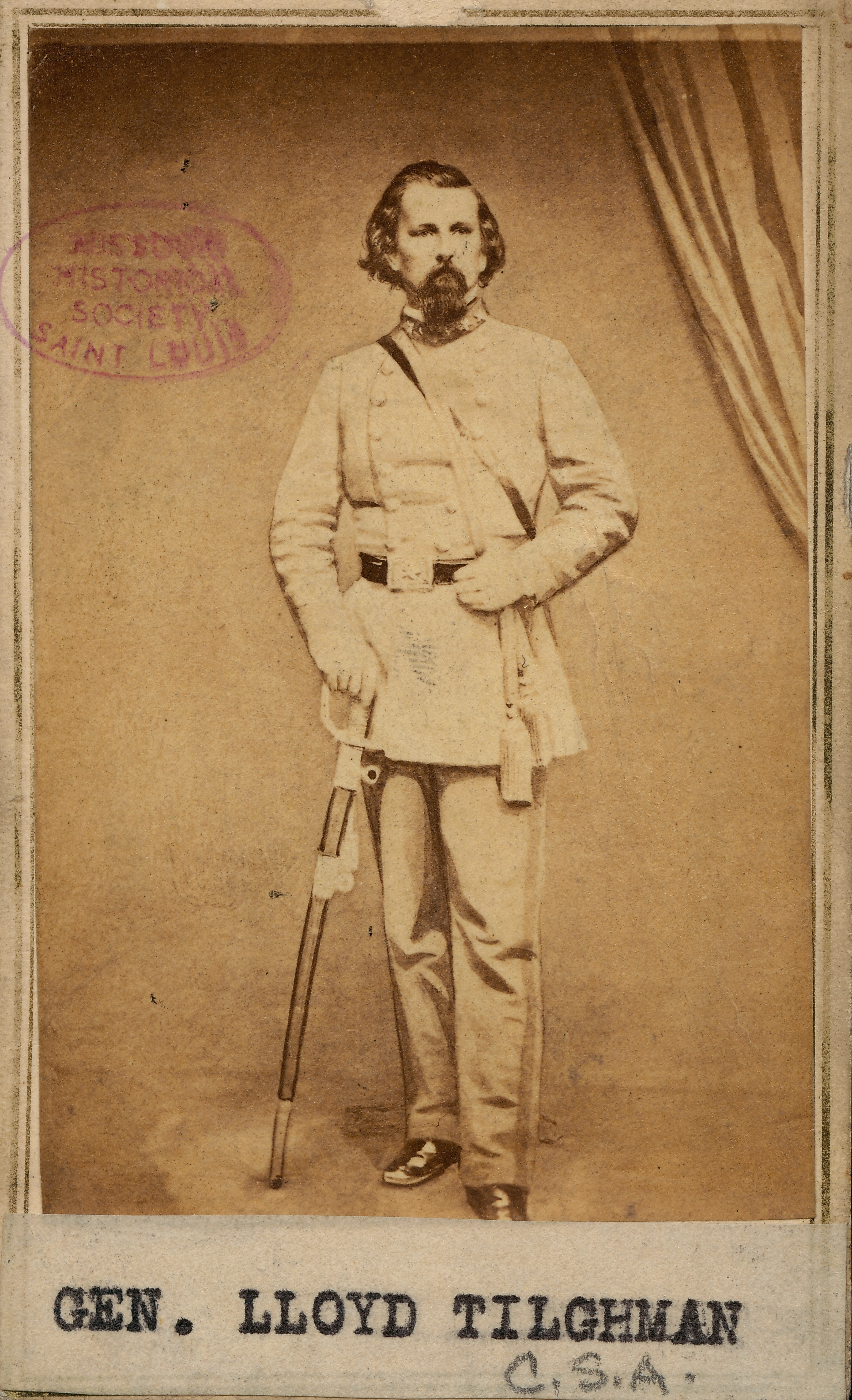 Full-length portrait of a man in uniform. MHS stamp on image. "GEN. LLOYD TILGHMAN [in type] C. S. A. [written]" (below image). "Gen. Lloyd Tilghman" (written on reverse side).Title: Lloyd Tilghman, General (Confederate).